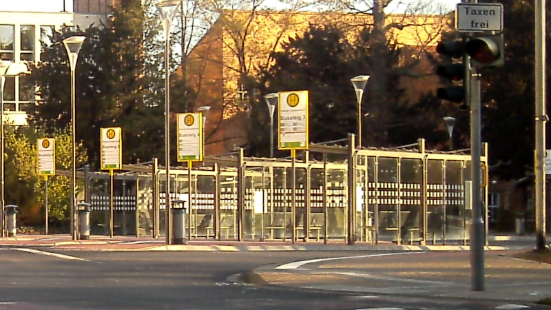 Bus terminal, Viersen, Germany